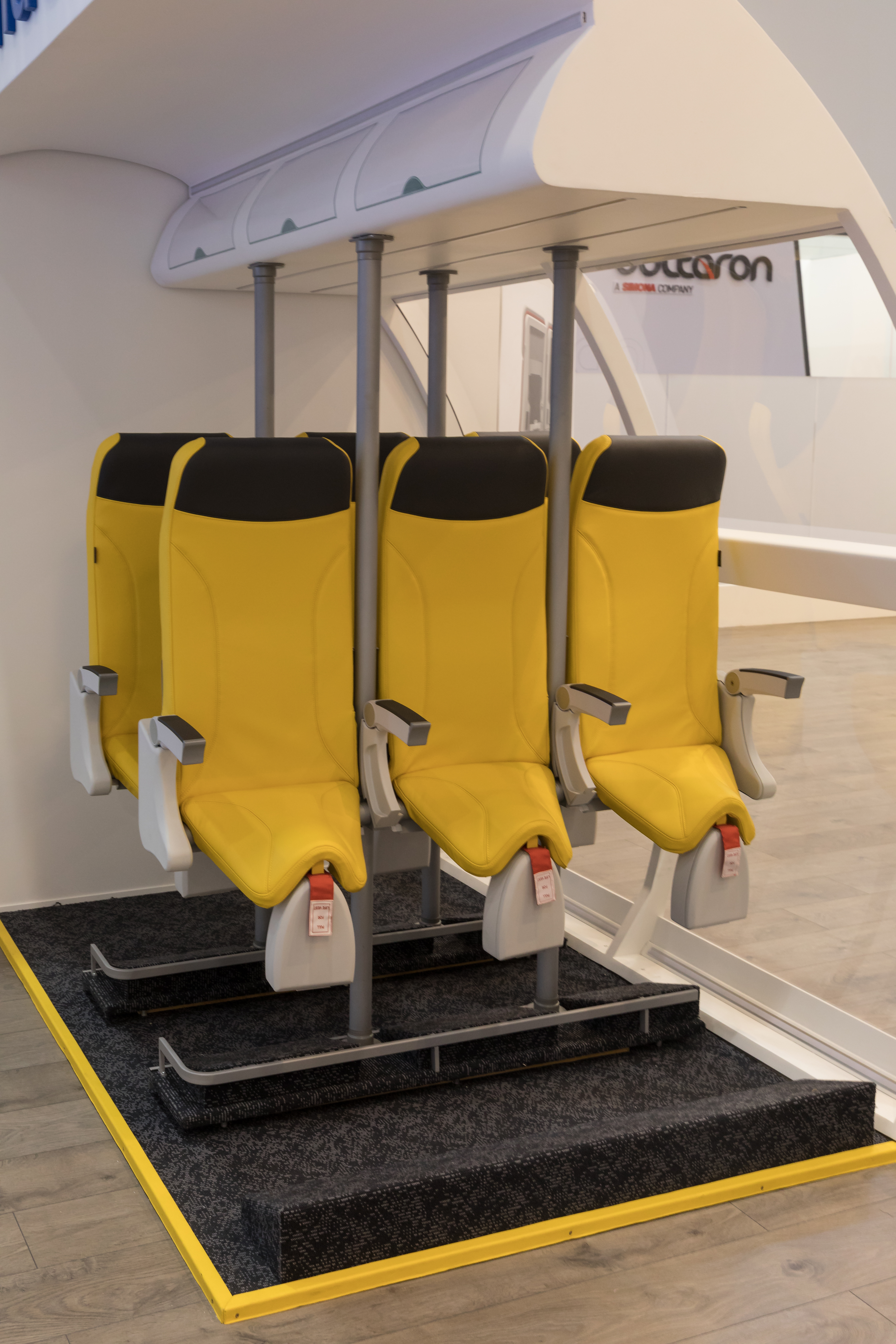 Passenger Experience Week Hamburg 2018